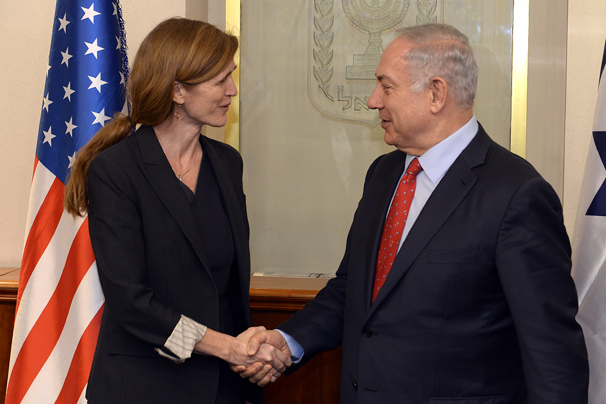 "From the Real UN to the Model UN" - U.S. Ambassador to the UN Samantha Power's visit to Israel.